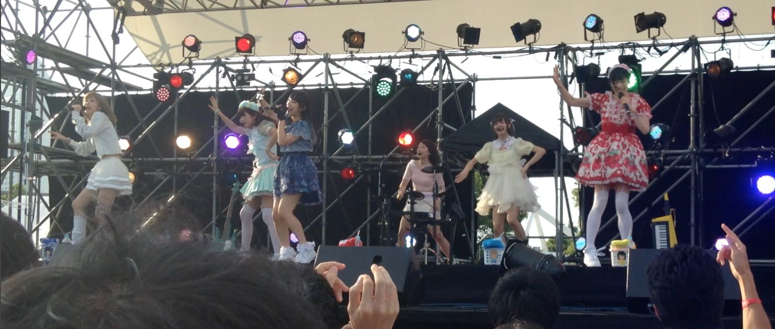 Band Ja Naimon Idolyokocho festival 2016 in Yokohama Akarenga Park July 3rd 2016